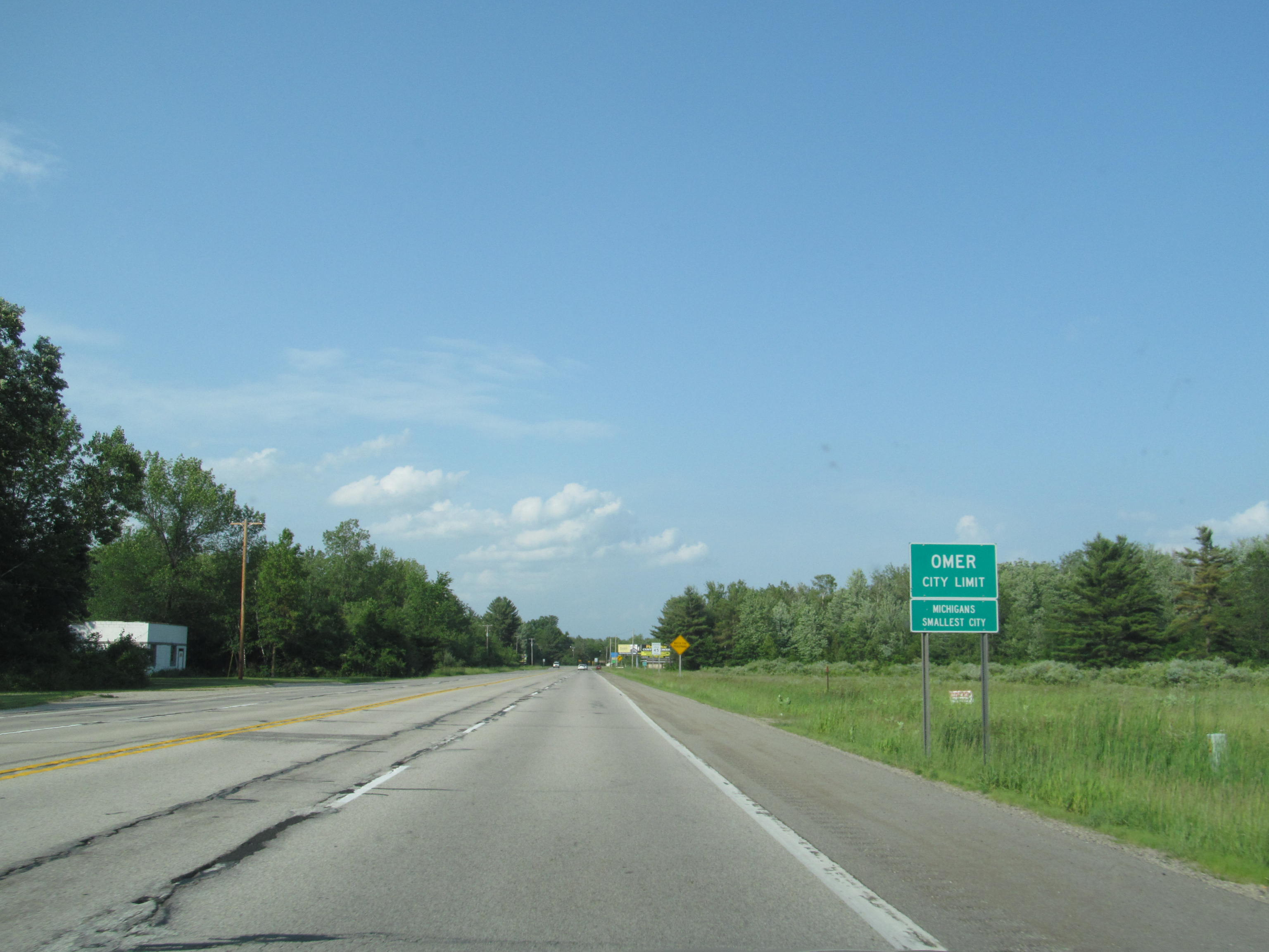 US Highway 23 entering Omer, Michigan